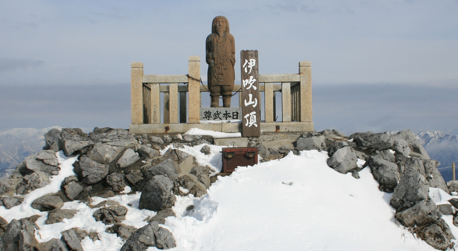 Yamato Takeru on the peak of Mount Ibuki